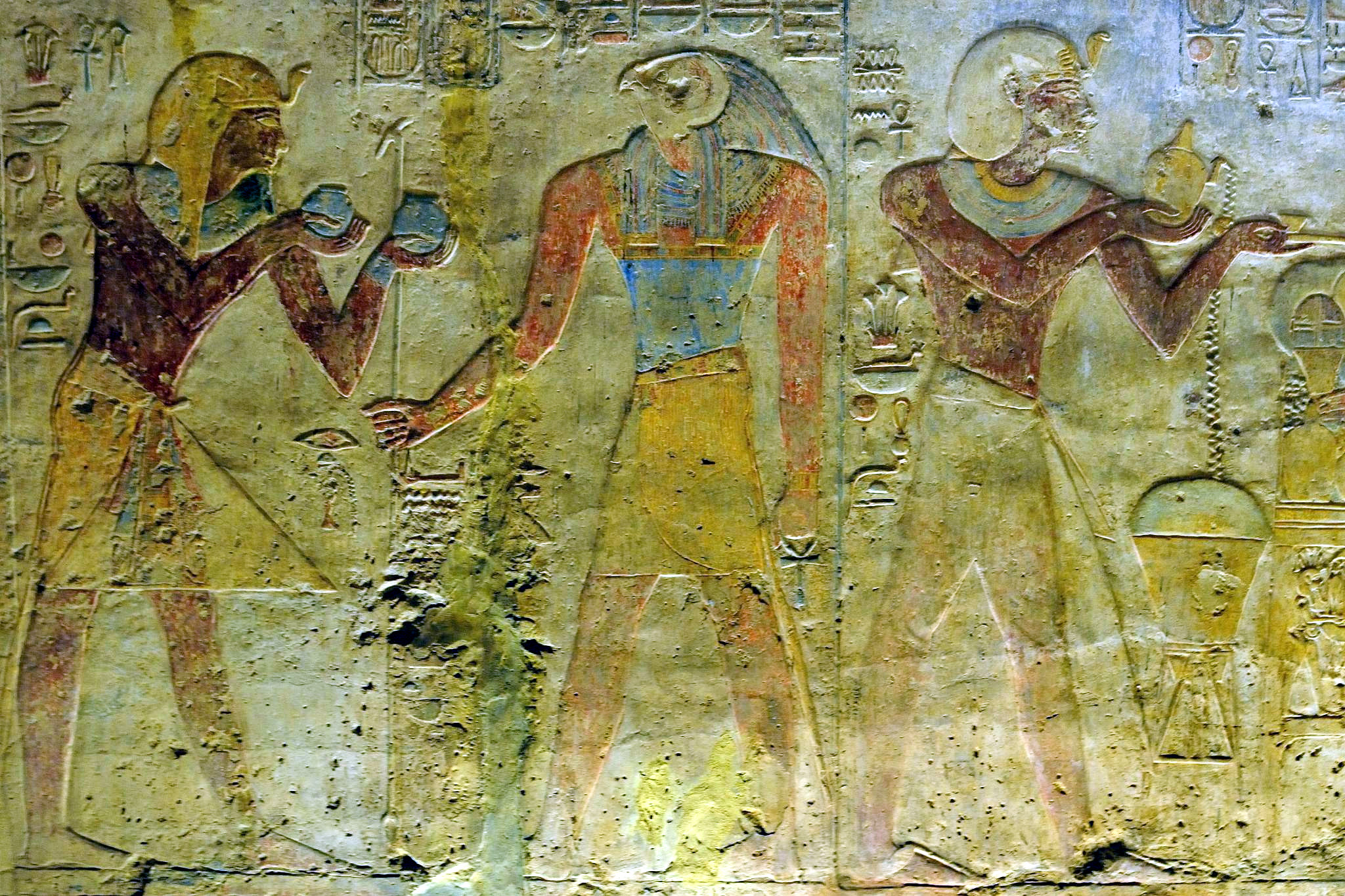 A relief of pharaoh Ramesses II making an offering to Horus from the Temple of Beit el-Wali in Nubia.